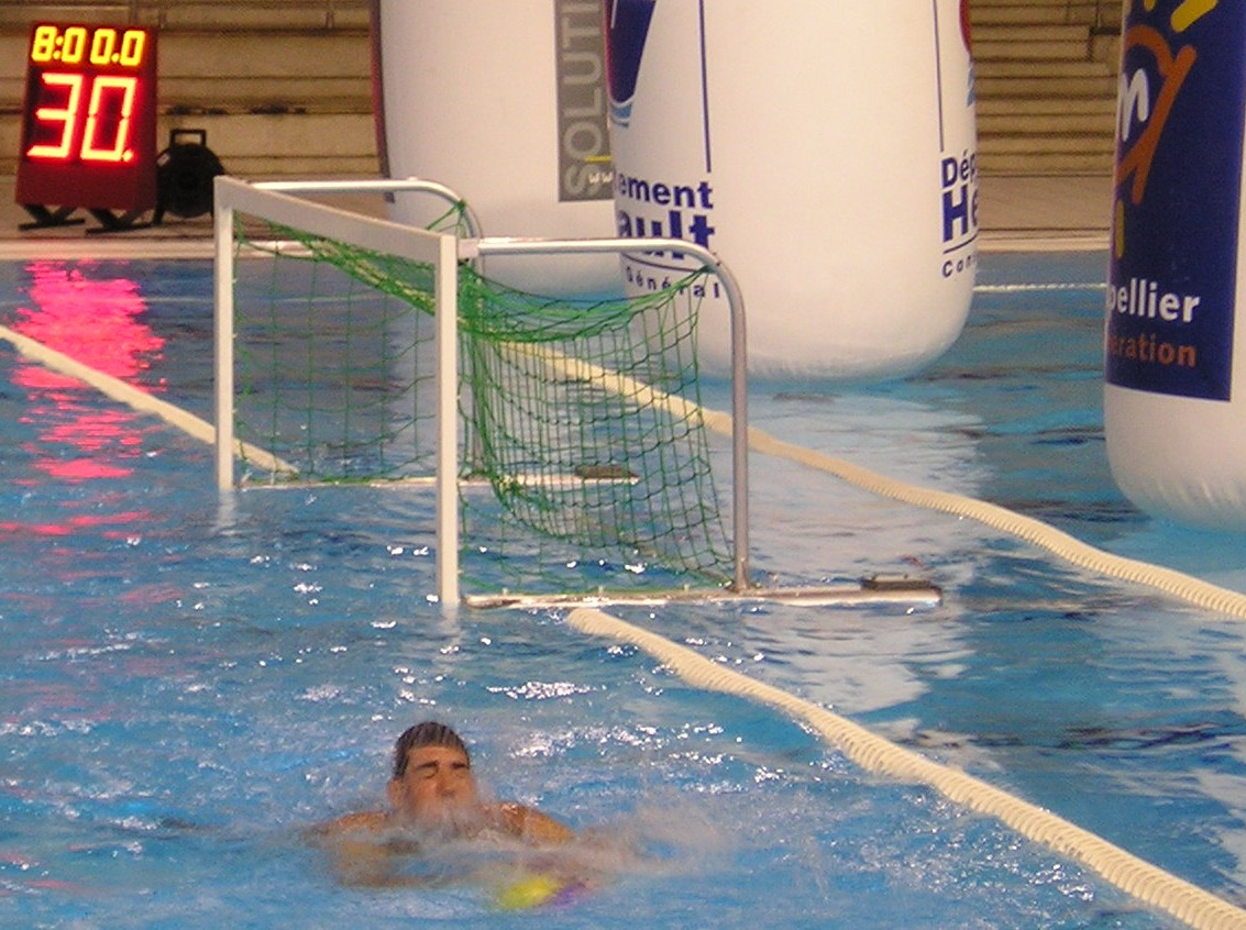 Montpellier, France, LEN Trophy first round. A water polo goal by the rules of the European League of Swimming.